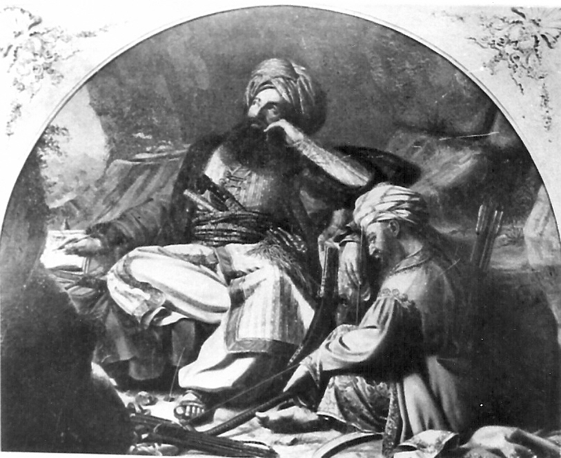 Reproduction of painting by Michał Hieronim Leszczyc-Sumiński depicting Muhammad writing the Qur'an